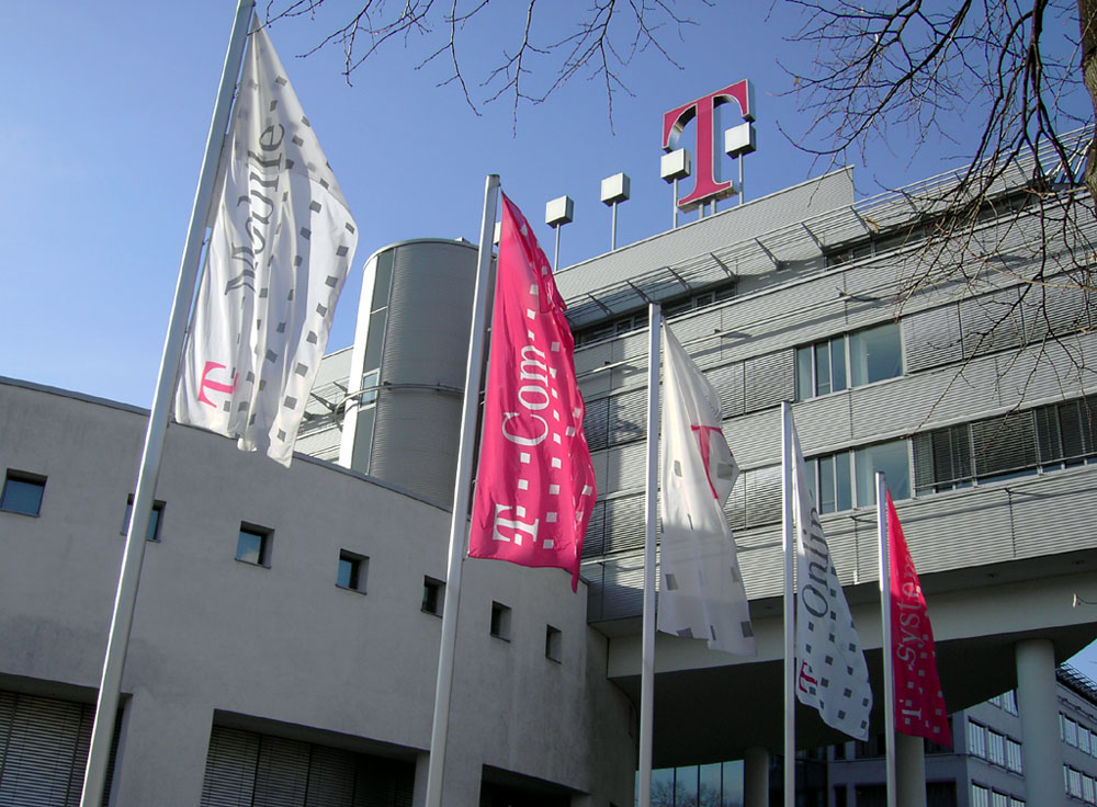 Deutsche Telekom corporate headquartiers, Bonn